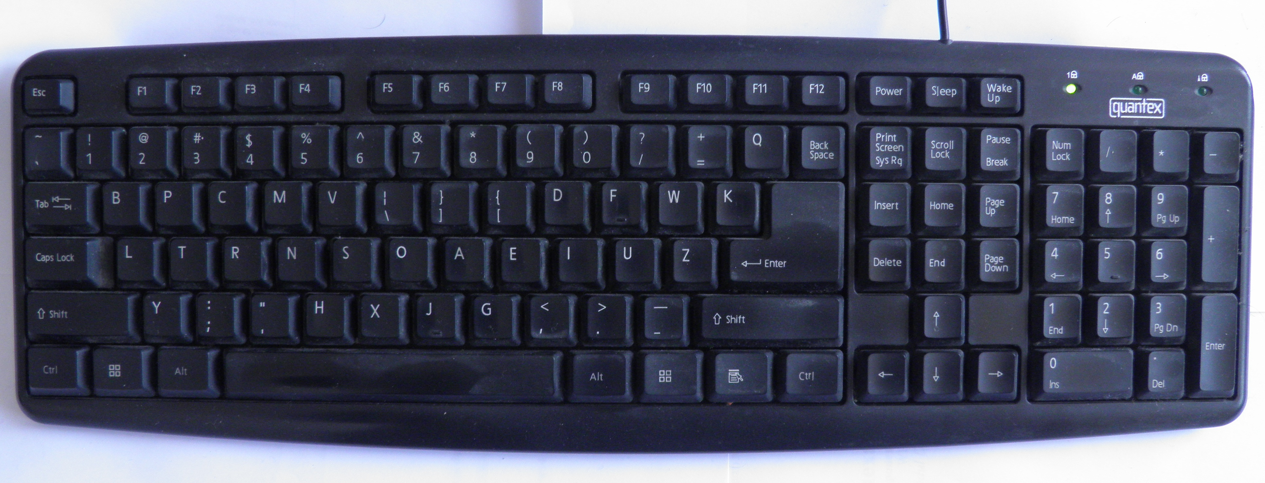 A keyboard with moved keys according to Popak layout.